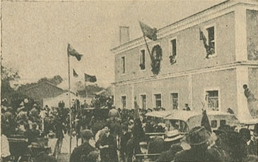 Arrival of the president of the Portuguese Republic, António José de Almeida, at the Valado train station, in the Linha do Oeste (Western Railway). This image was published on the Ilustração Portuguesa magazine No. 745 (II Series), of the 31st May 1920, and scanned by the Hemeroteca Municipal de Lisboa.